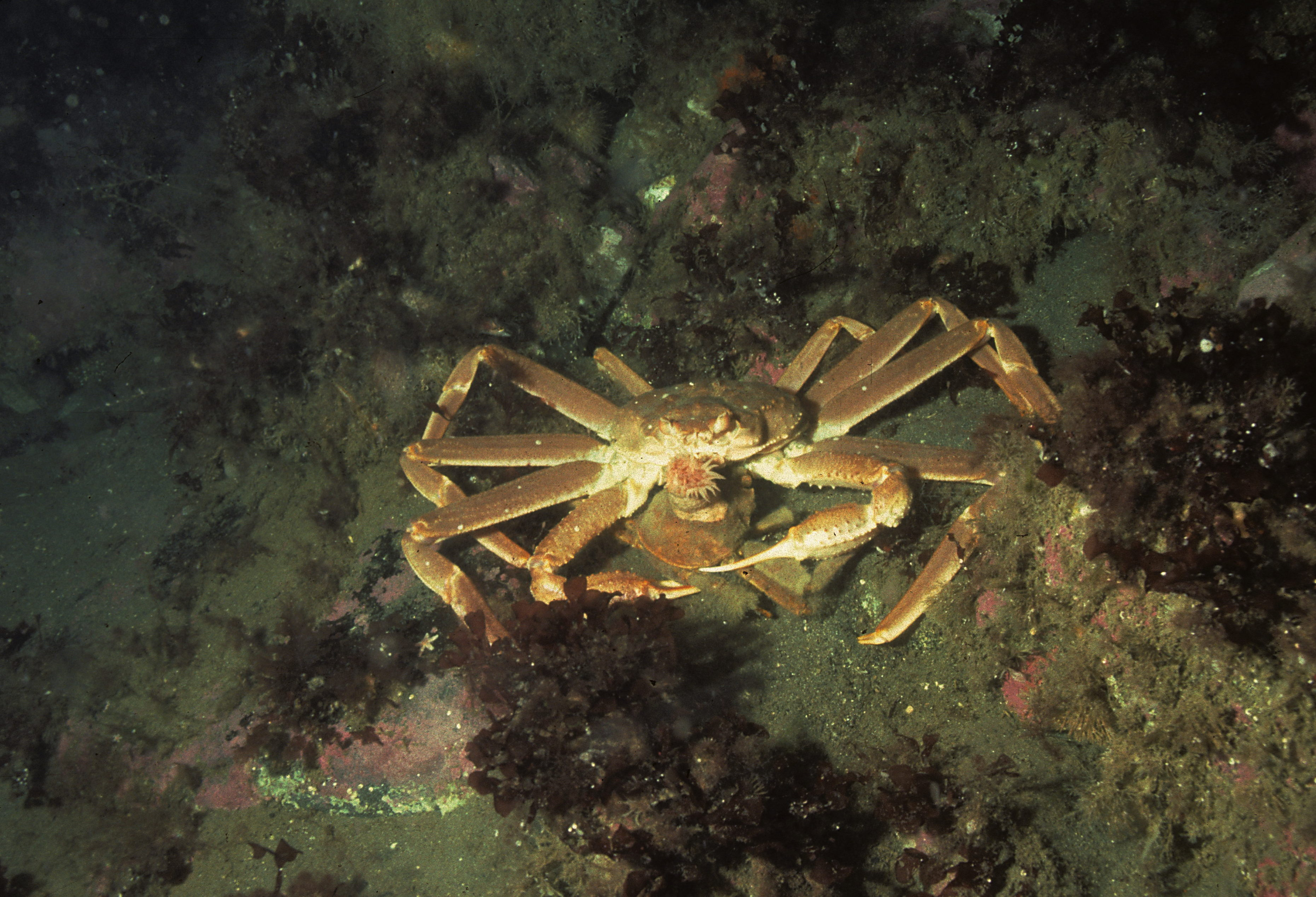 Snow crab, Chionoecetes opilio, in Bonne Bay, Newfoundland, Canada. The larger individual is a male, the smaller one a female. It is not uncommon for the male to cut the legs off the female, and then carry her around.